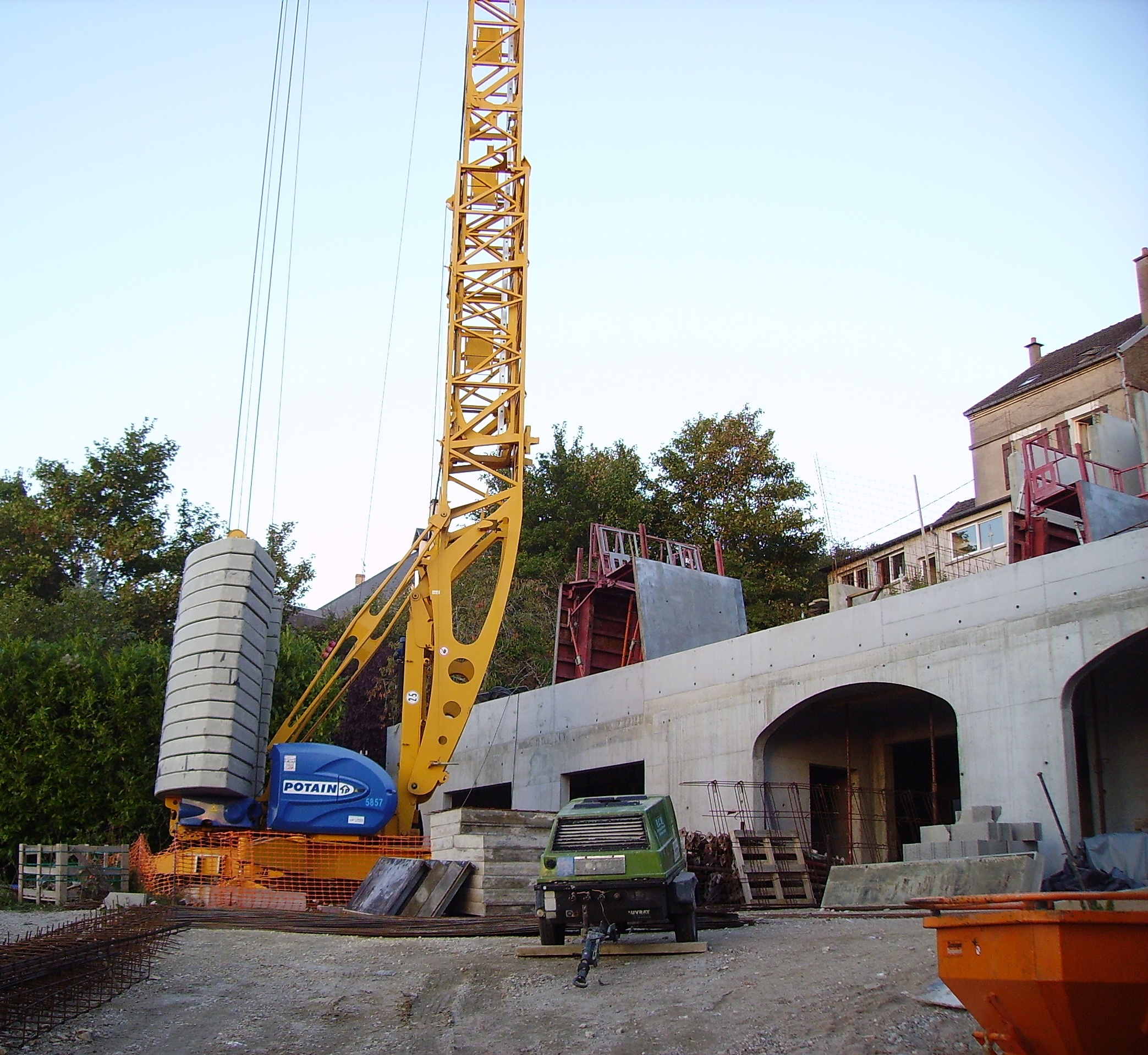 Tower crane by Potain model Igo T. Counterweight: 33 t.